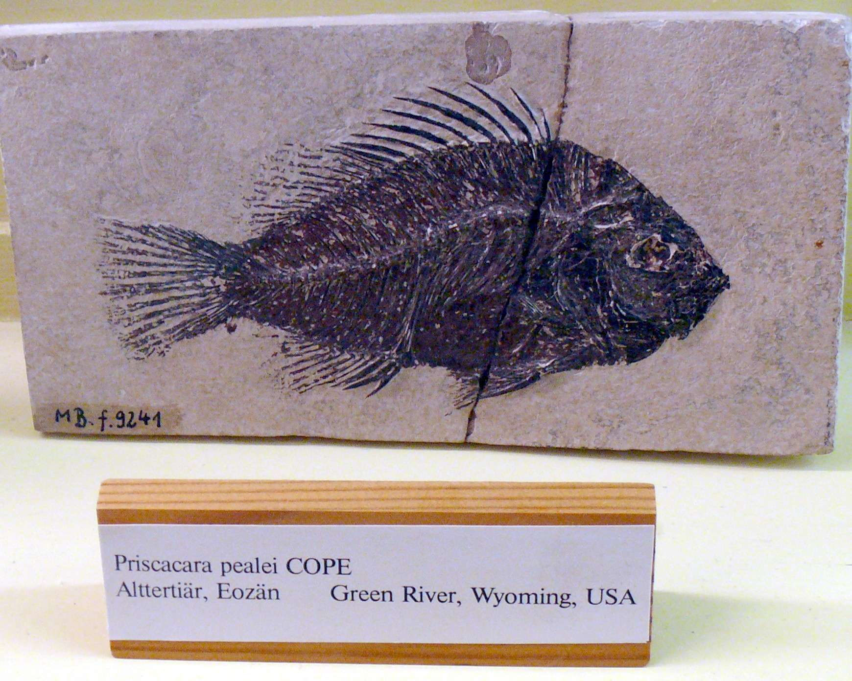 Priscacara pealei from the Eocene, Green River, Wyoming